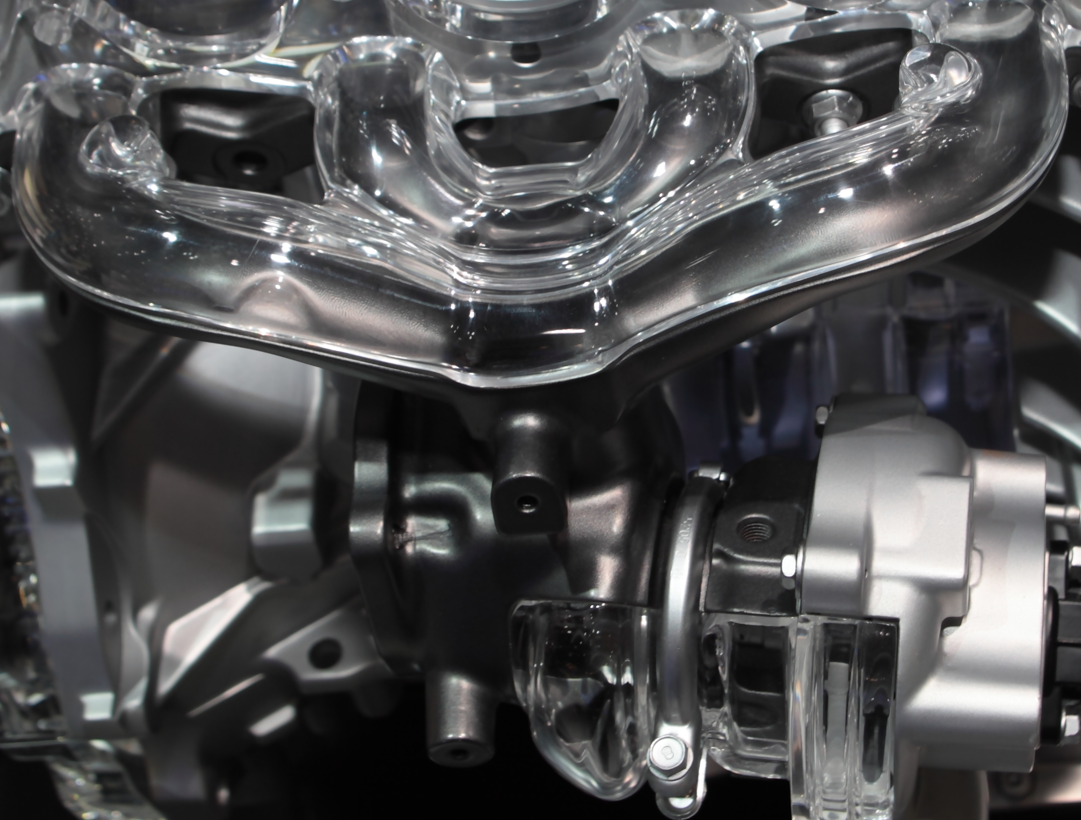 Divided exhaust manifold with two "scrolls" (spirals) flowing into two angled inlets to the twin-scroll turbocharger on the Hyundai T-GDI engine